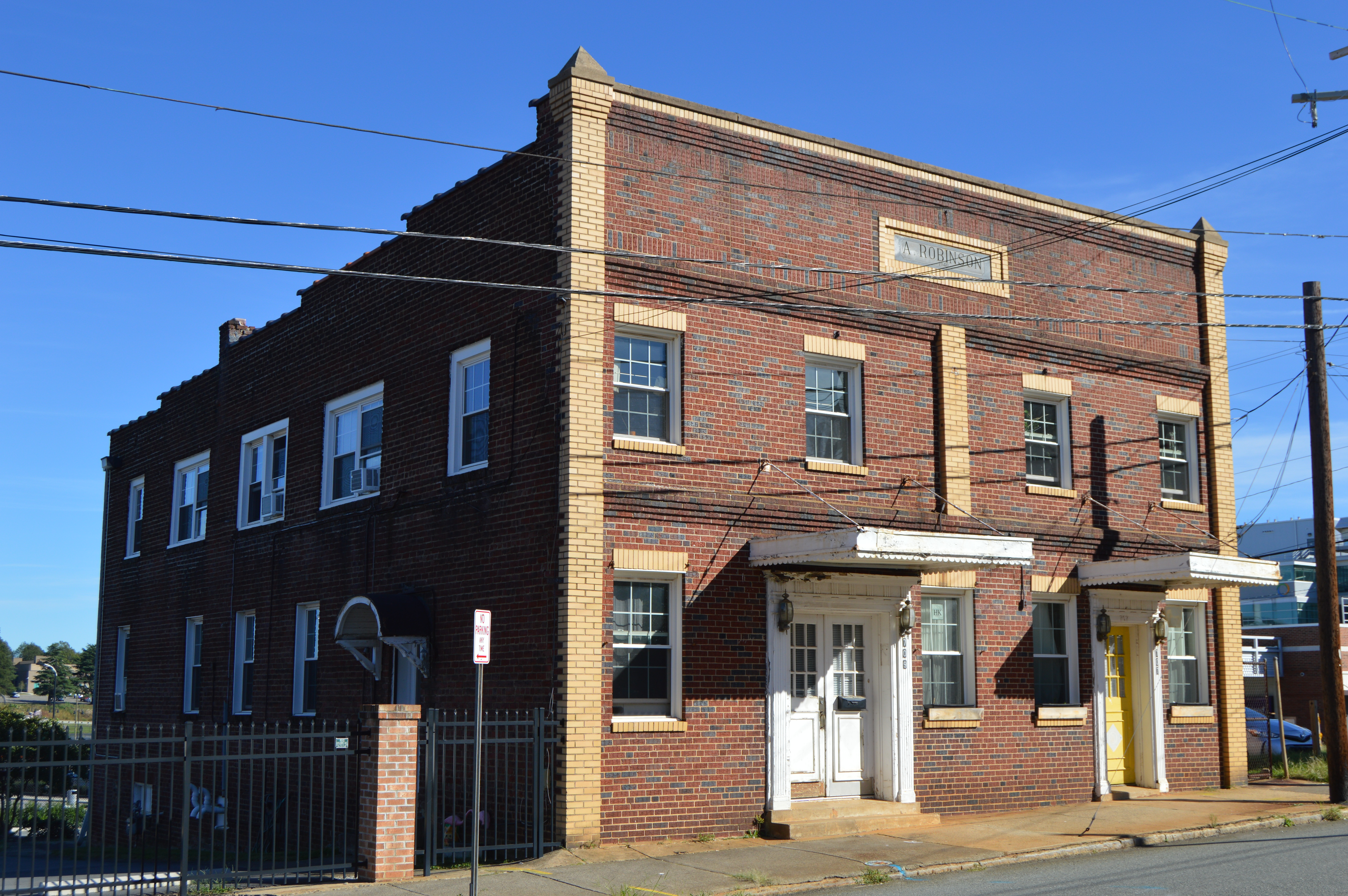 Front and northern side of the A. Robinson Building, located at 707-709 Patterson Avenue in Winston-Salem, North Carolina, United States. Built in 1940, it is listed on the National Register of Historic Places.